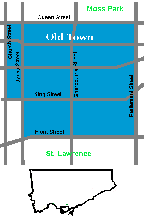 An outline map of the Old Town district in Toronto, Canada